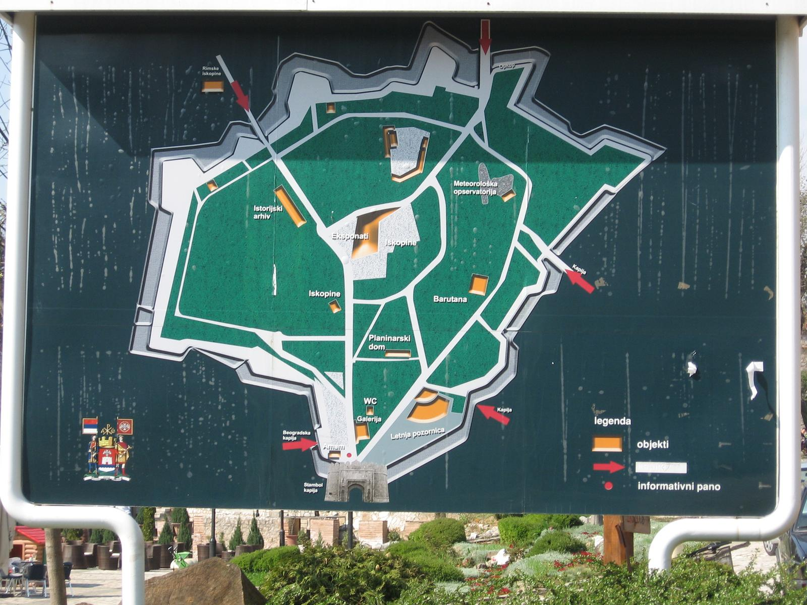 Map of Niš fortress on a billboard, Niš Serbia.